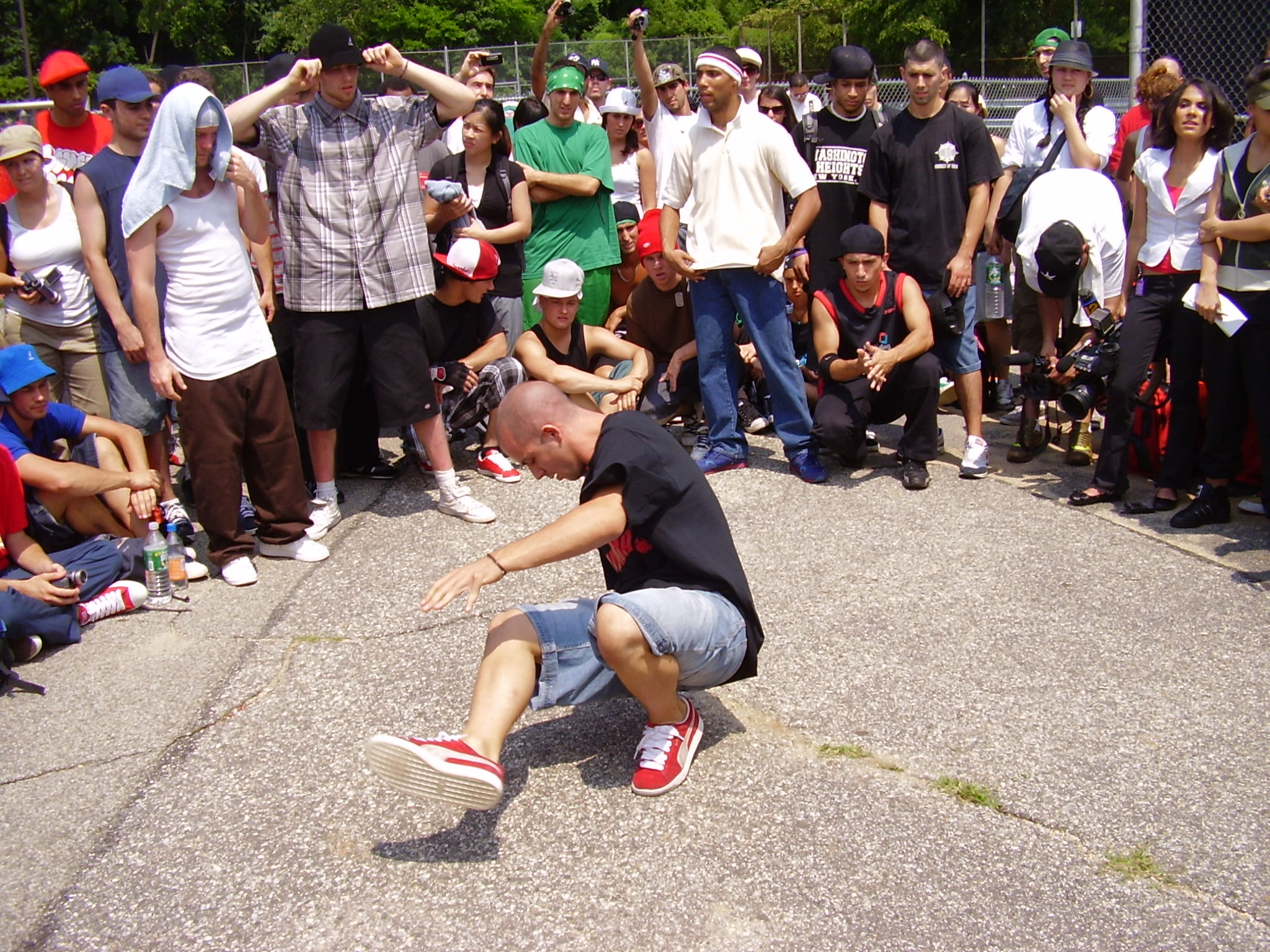 B-boy Pumba (Urban Force) dancing in the cypher of Rock Steady crew 30th Anniversary - Concrete Battle (The Bronx - July 2007)